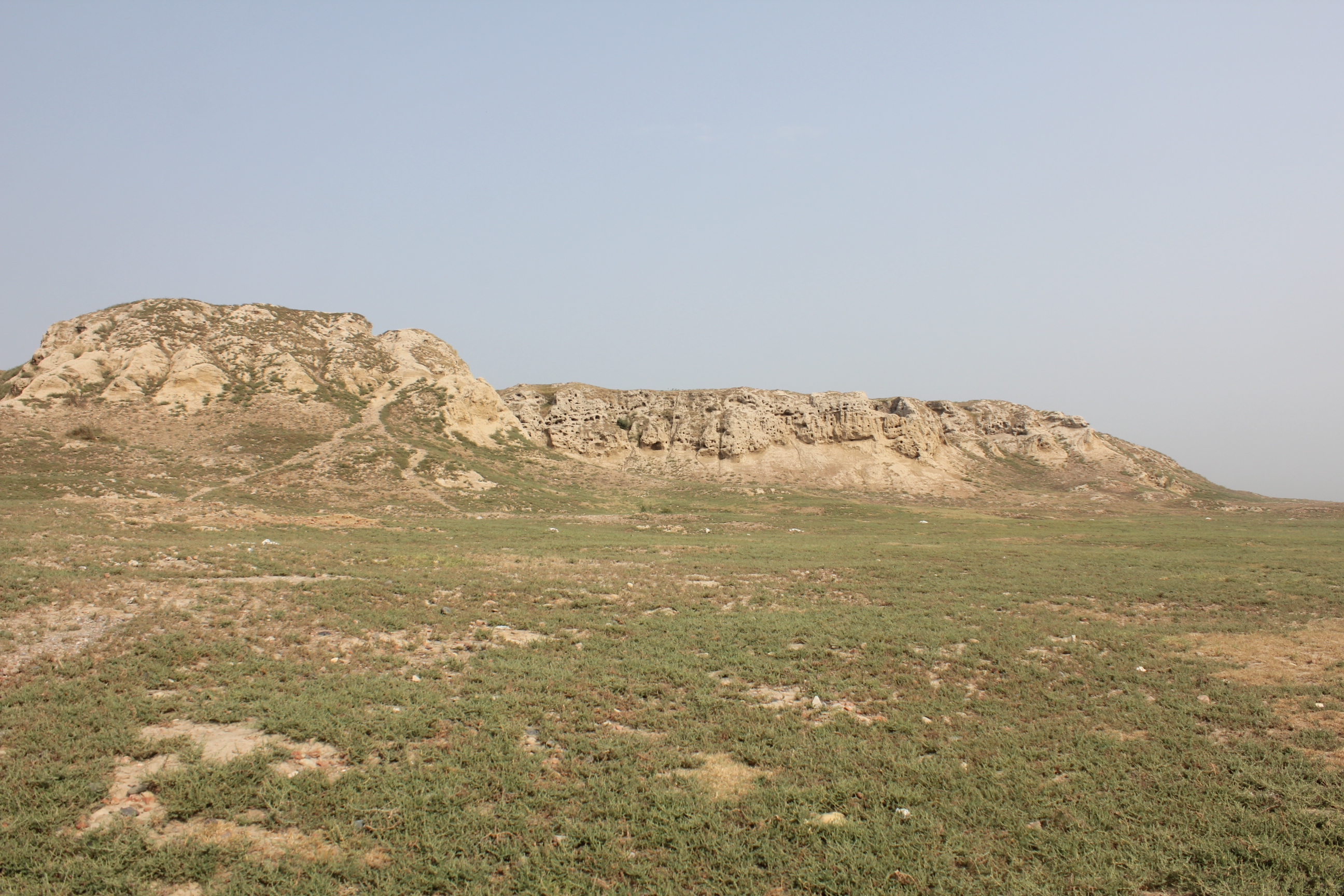 Bala Hisar mound This is a photo of a monument in Pakistan identified as the KPK-51